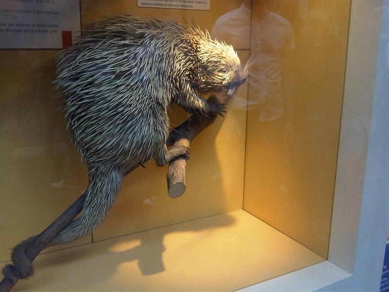 Taxidermied Brazilian Porcupine (Coendou prehensilis) at the Natural History Museum in London, England.